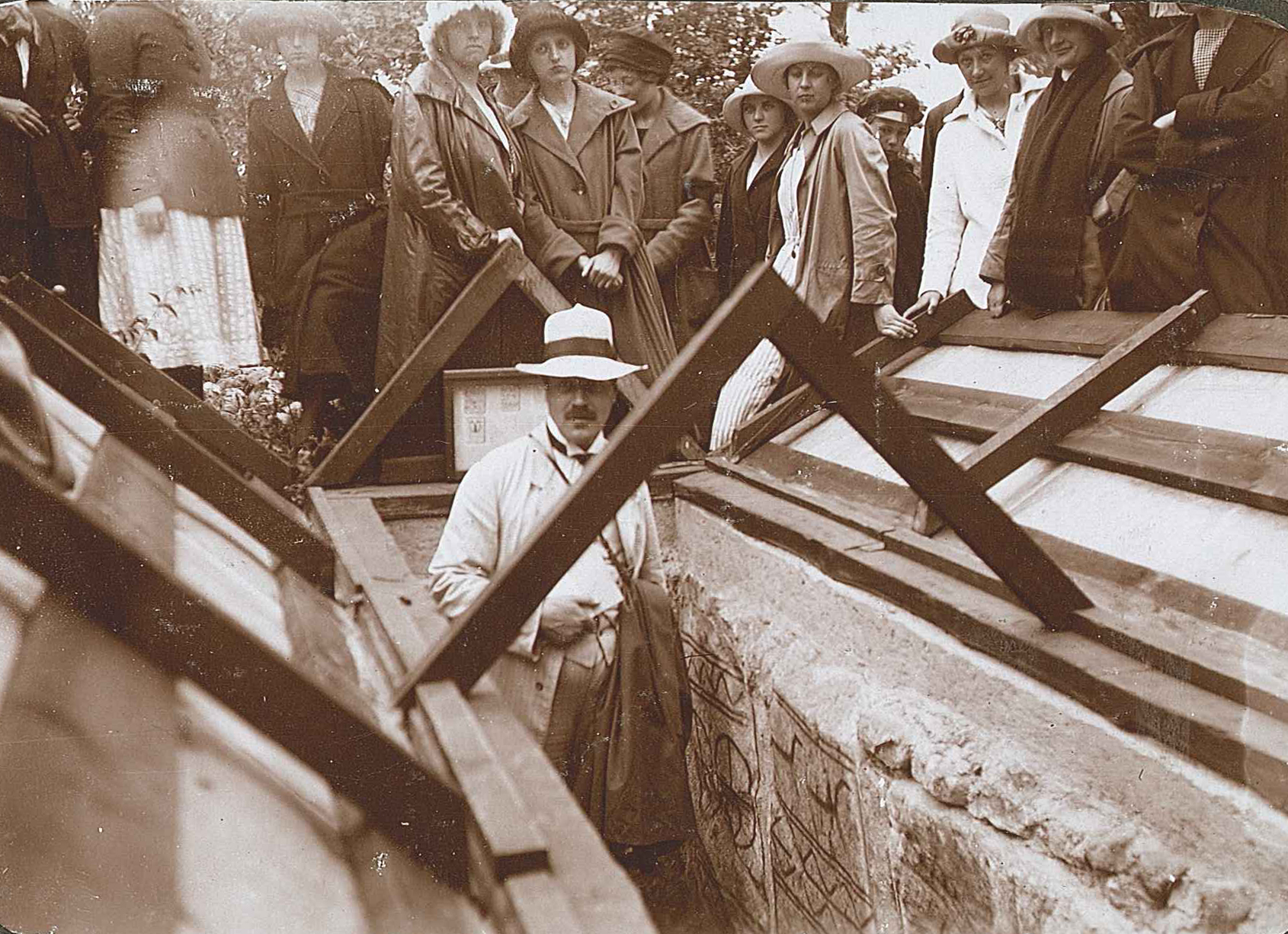 Carl Wilhelm von Sydow (1878-1952), Swedish professor of ethnology at Lund University, during an excursion to the King's Grave in Kivik.